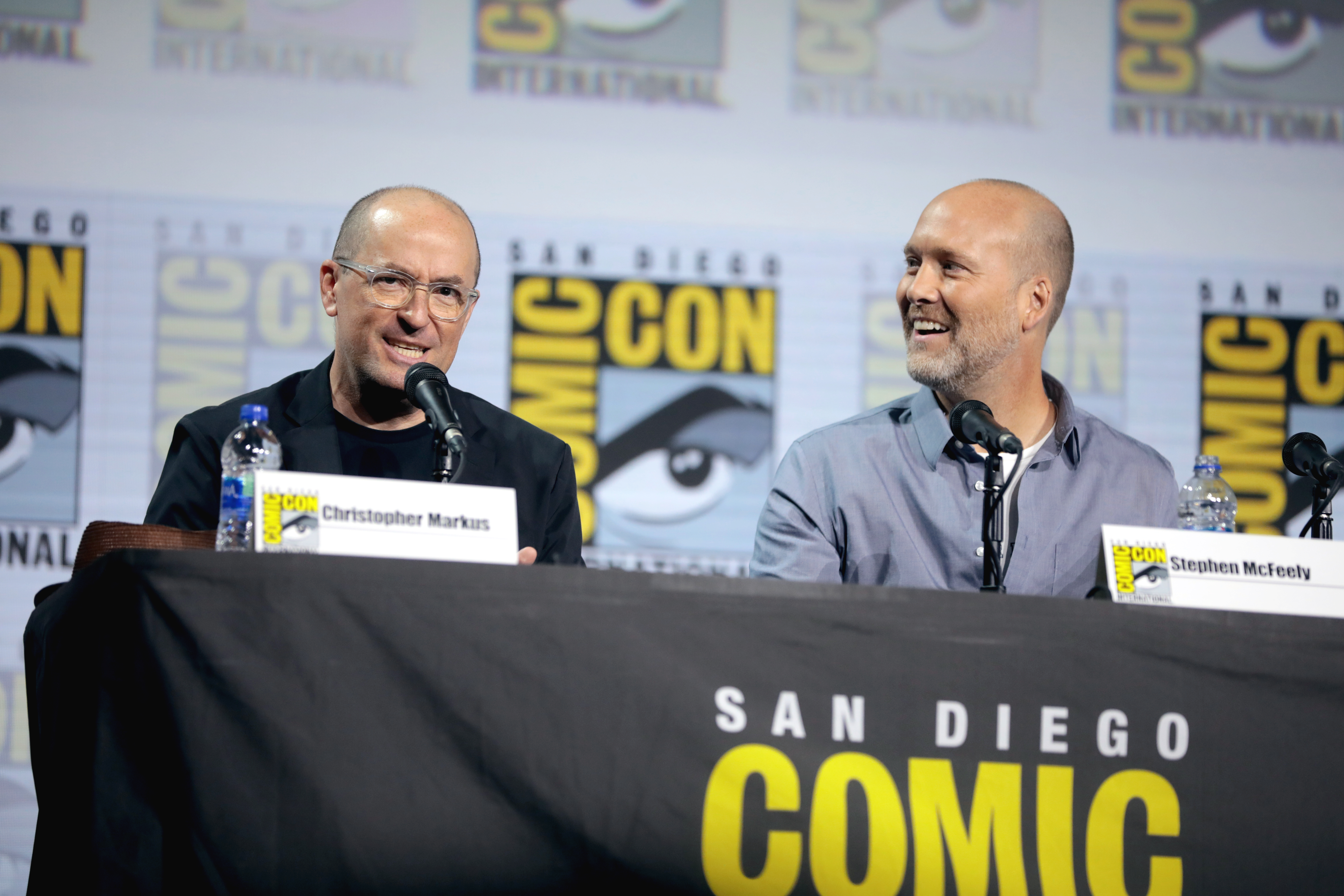 Christopher Markus and Stephen McFeely speaking at the 2019 San Diego Comic Con International, for "Writing Avengers: Endgame", at the San Diego Convention Center in San Diego, California.